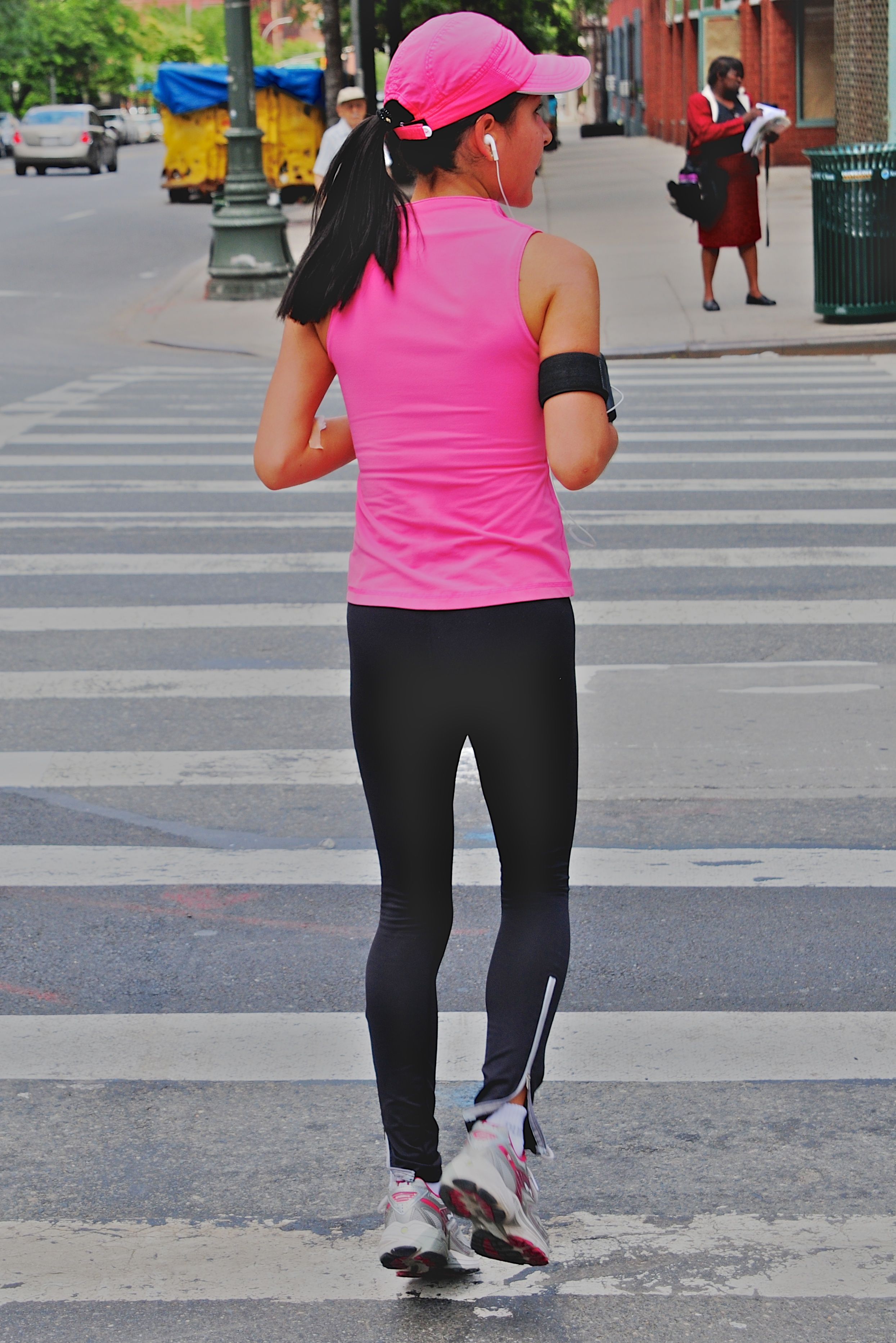 Jogger in Upper East Side New York City.